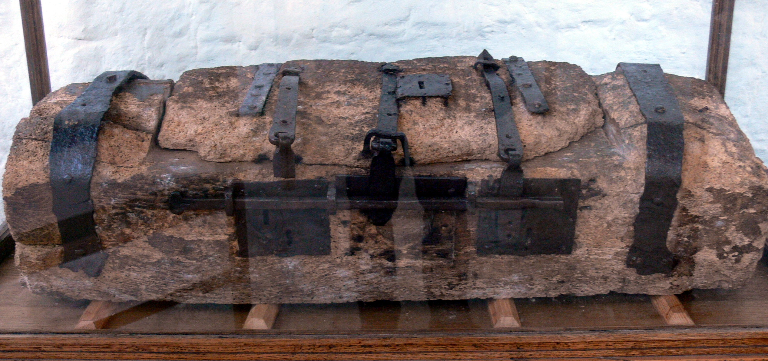 Clynnog Fawr ( Wales ). St Beuno church: Medieval parish chest carved from a single piece of wood.